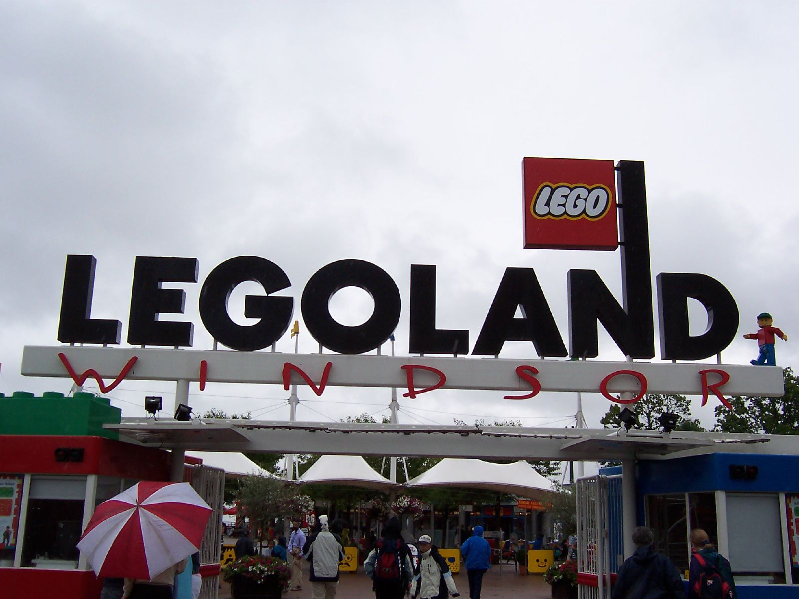 Legoland Windsor, England, UK: entrance.